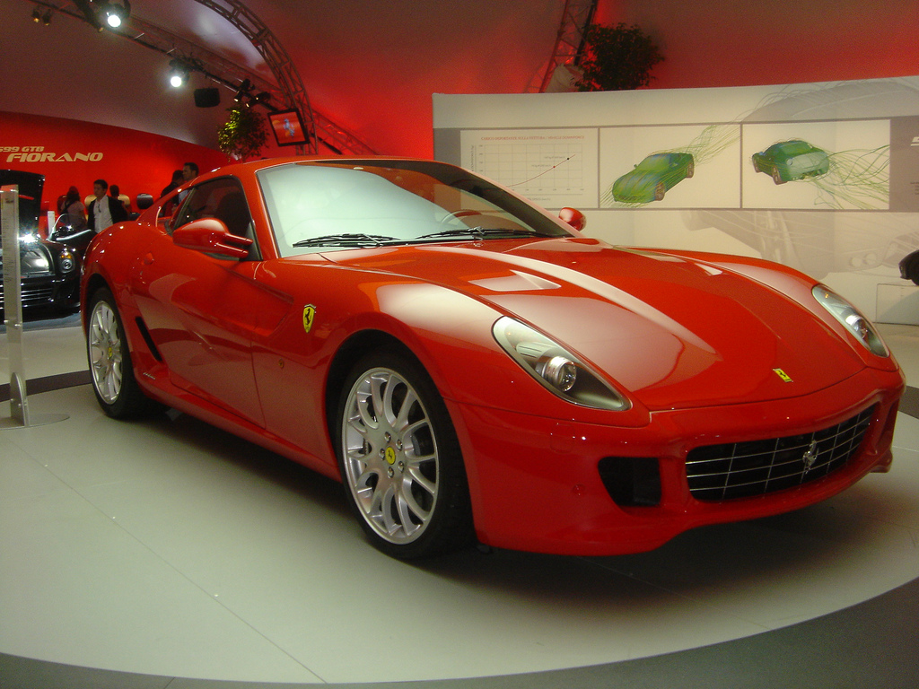 Taken from the same en.wiki article